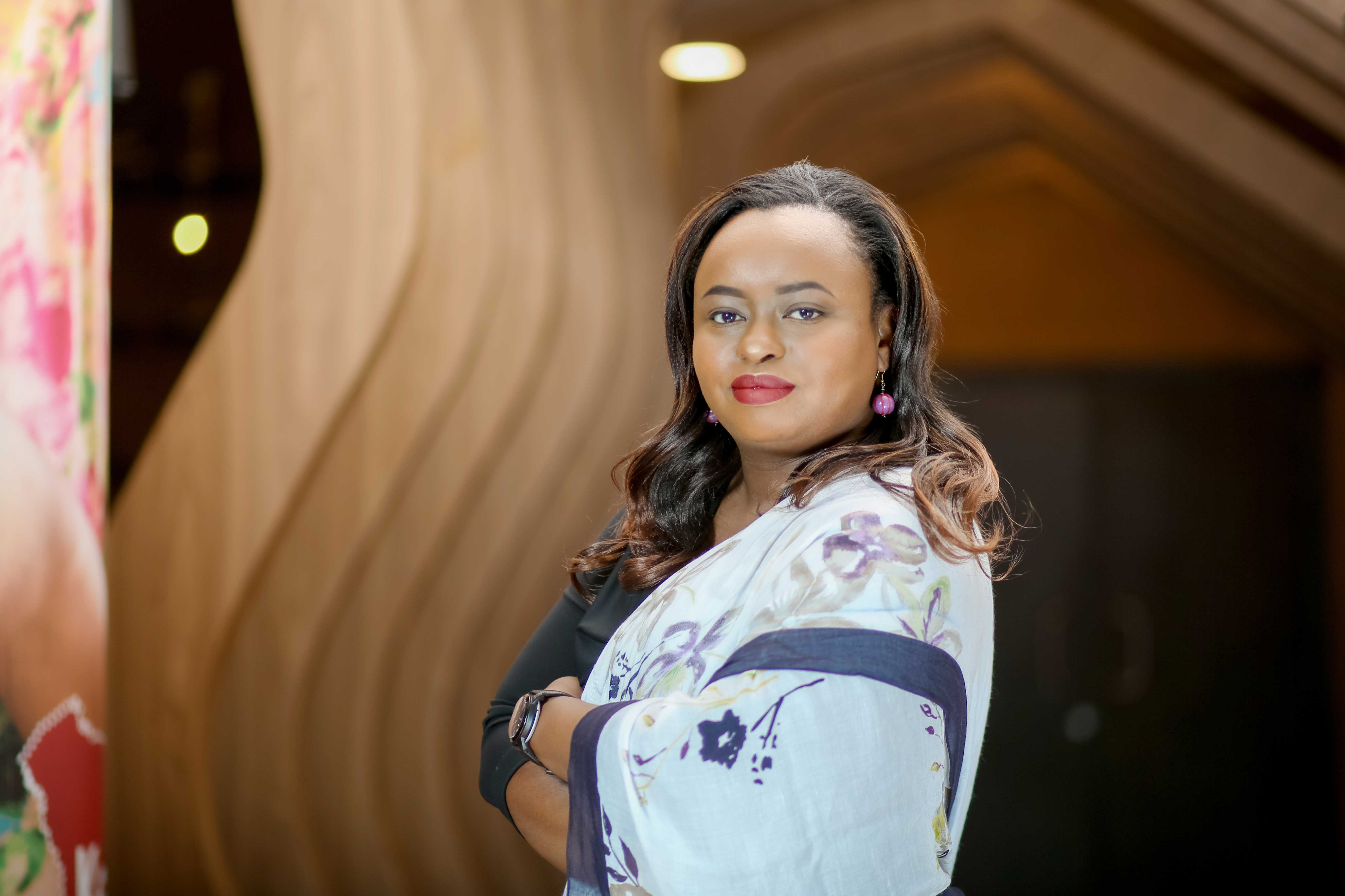 Staff photo for Wikimedia Foundation staff page.